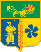 Coats of arms of Barvenkivskyj raions